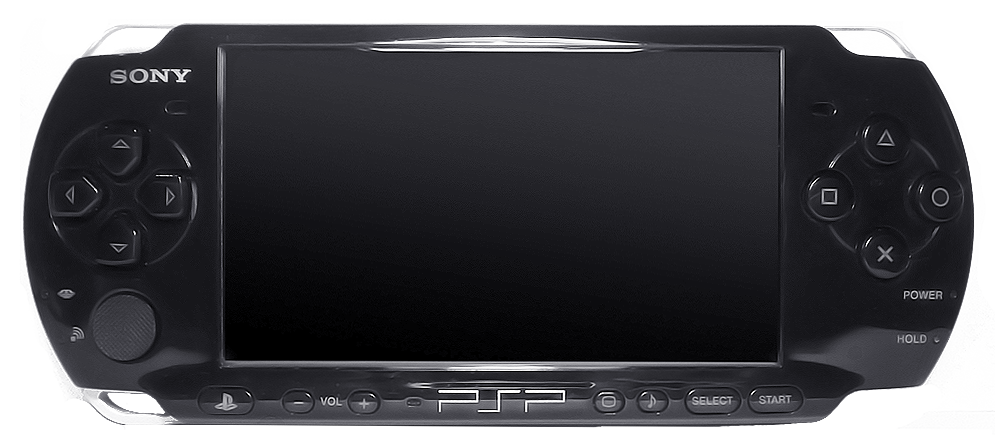 An image of the PlayStation Portable (PSP) 3000 (Slim)